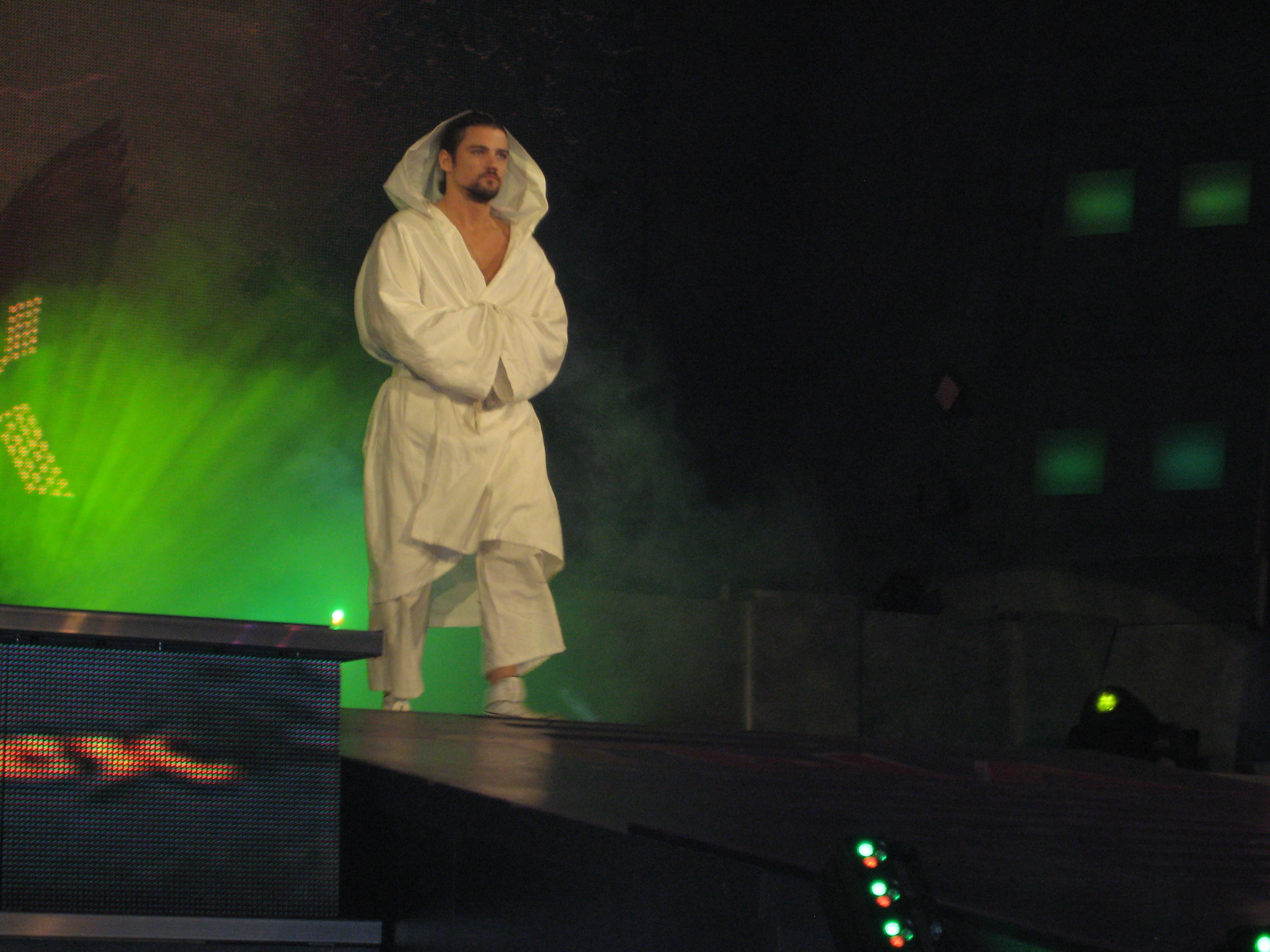 September 8th, 2010 tapings.